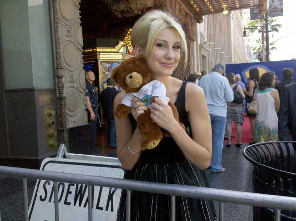 Chelsea Kane in June 2010